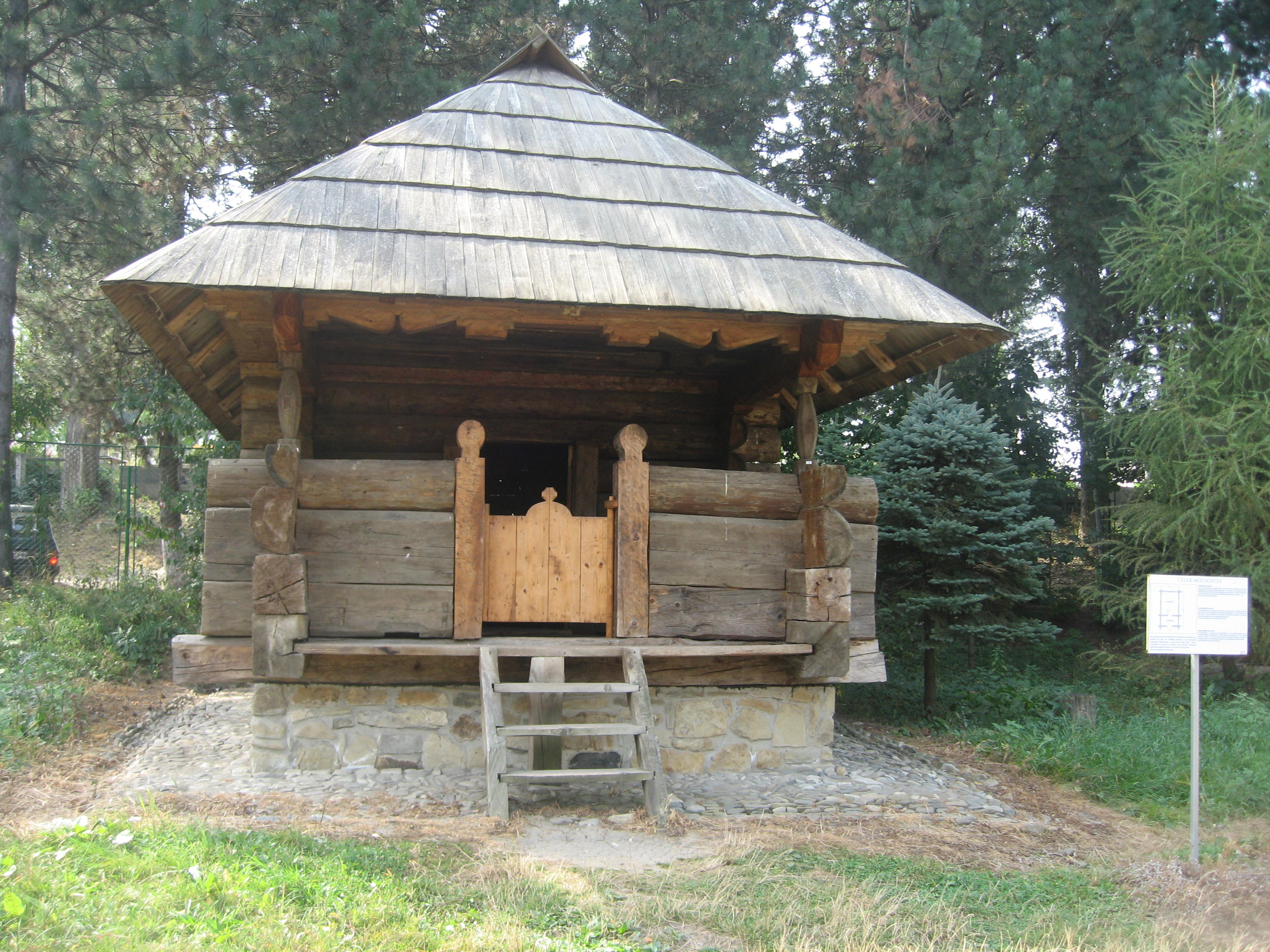 Bukovina Village Museum - The Moldoviţa Cabin, Câmpulung Moldovenesc ethnographic area.